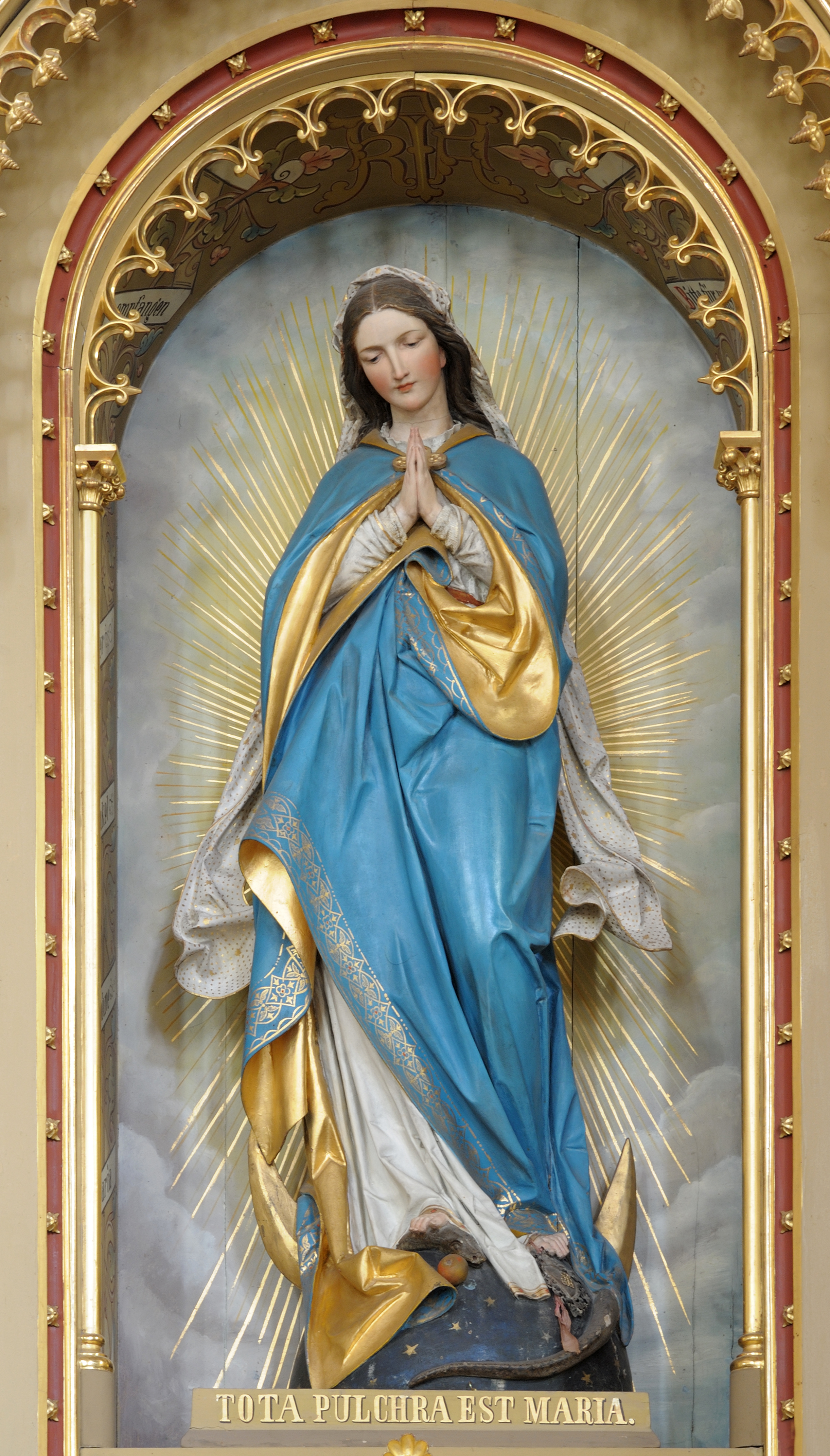 Virgin in the parish church of St. Ulrich in Gröden - Ortisei Val Gardena Italy. painter Josef Moroder-Lusenberg